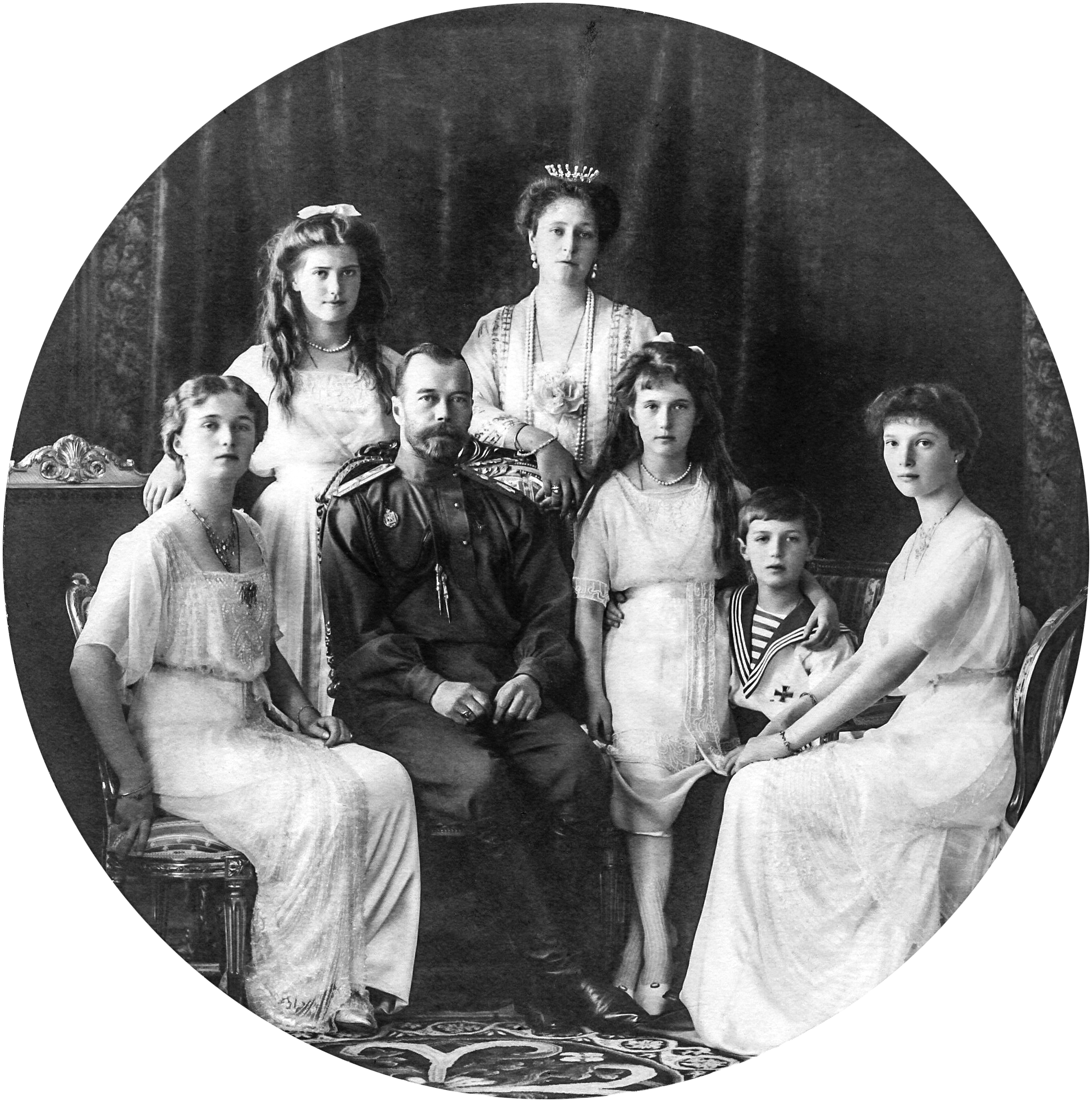 The Russian Royal Family—The Children of the Czar Have Inherited the Regal Beauty of Their Mother.